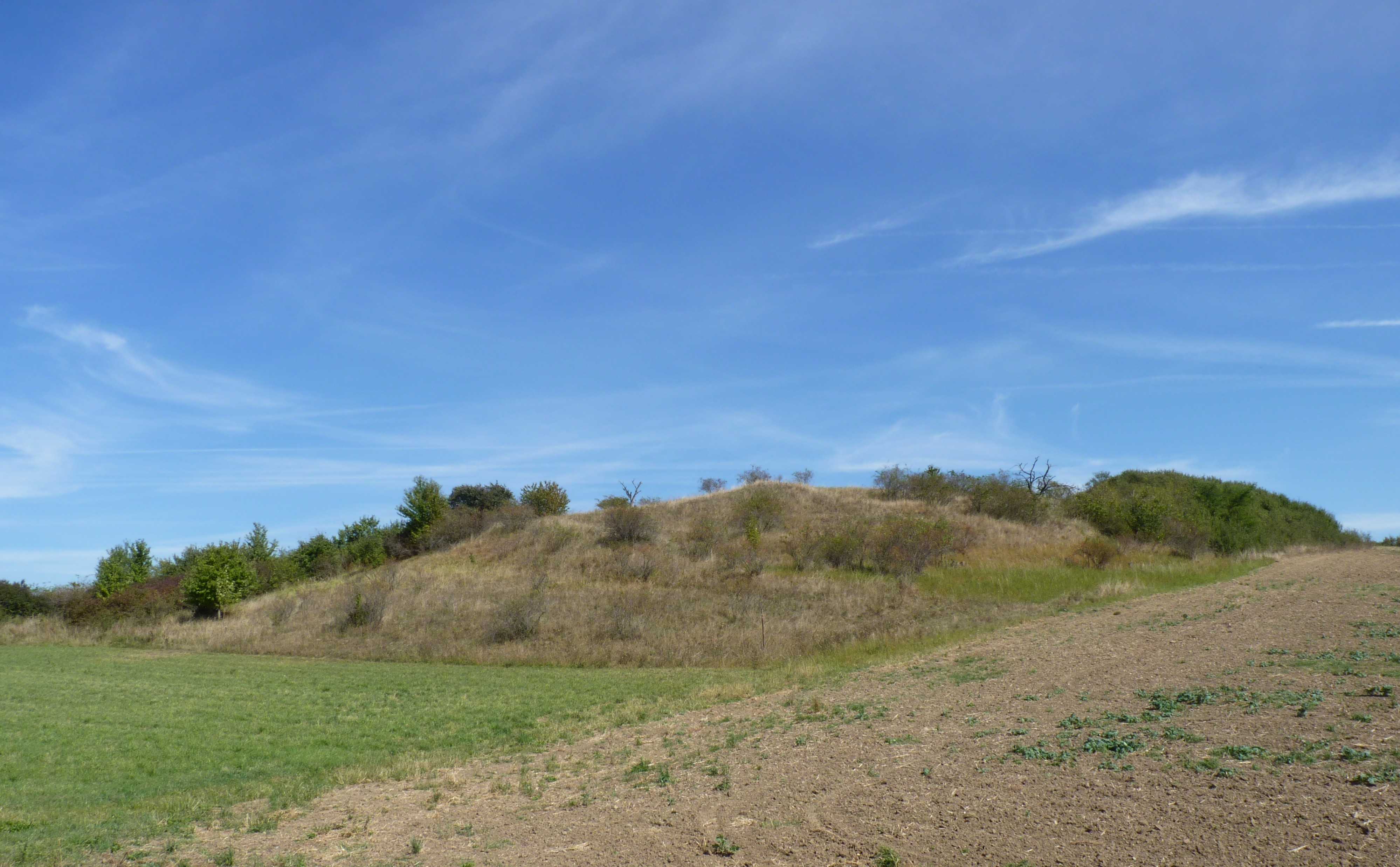 Vinohrady (natural monnument). Brno-Country District, South Moravian Region, Czech Republic